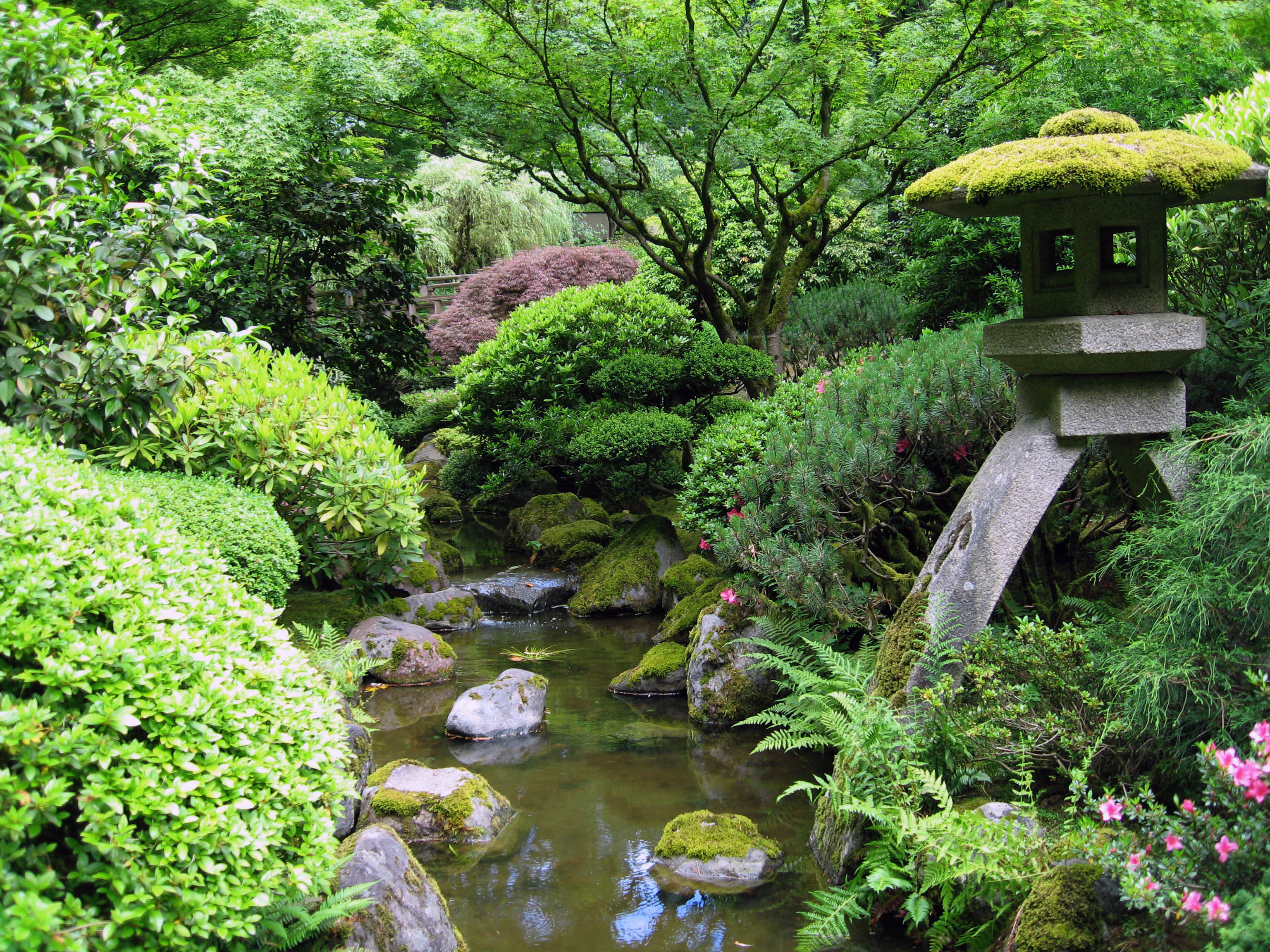 Naturalistic garden at Portland Japanese Garden